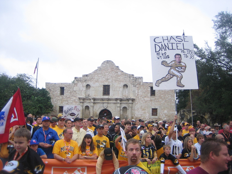 University of Missouri football fans in front of the Alamo before the Big 12 Conference Championship game against the University of Oklahoma in December 2007.